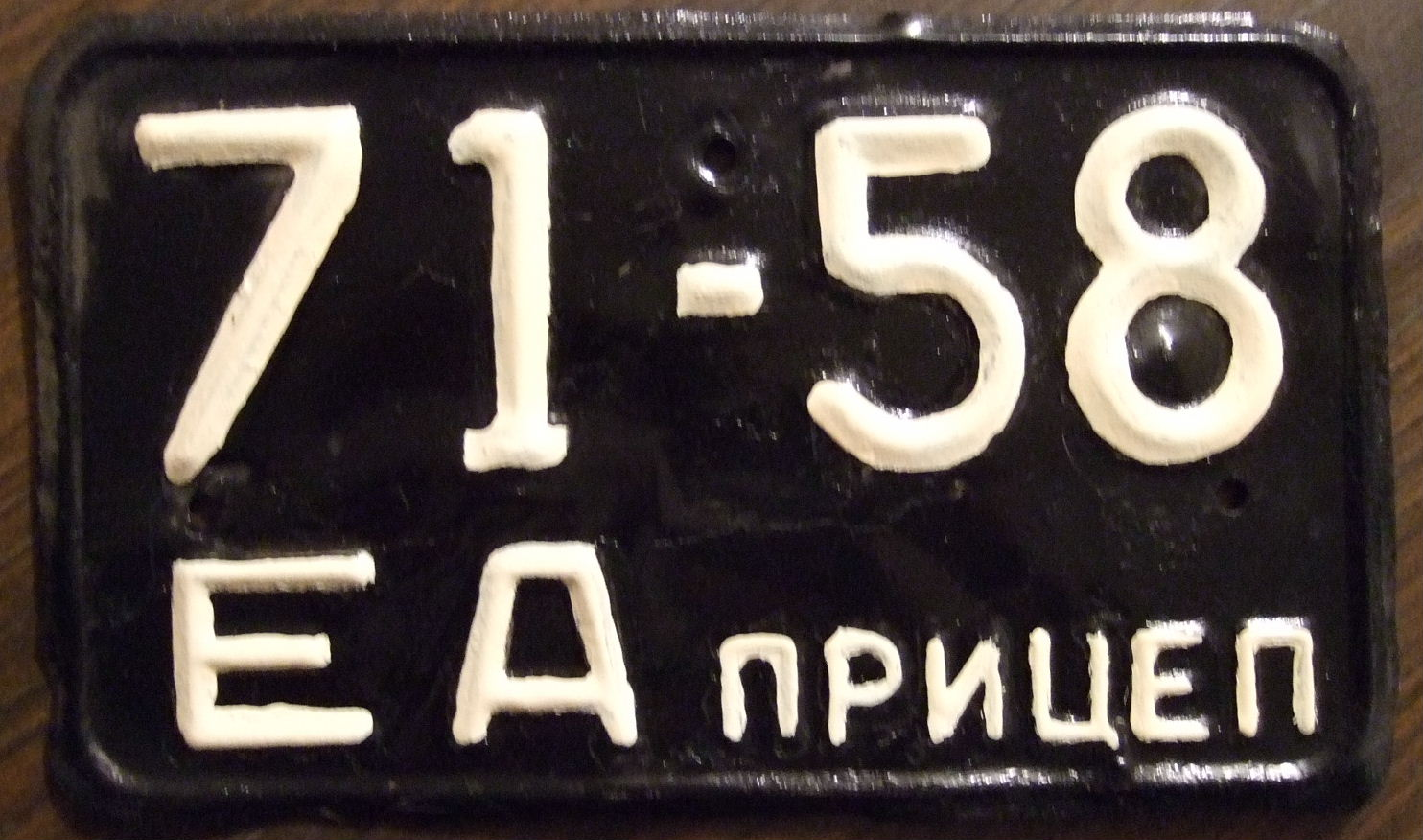 USSR ESTONIAN SSR trailer 1960 series